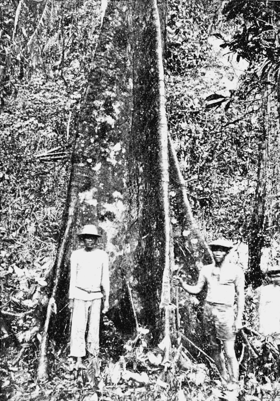 Gutta percha tree in Mindanao